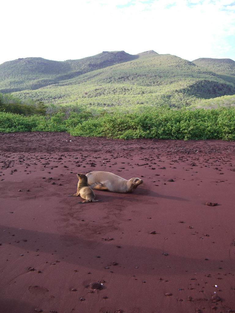 Sea lion mother and pup at Rabida Island